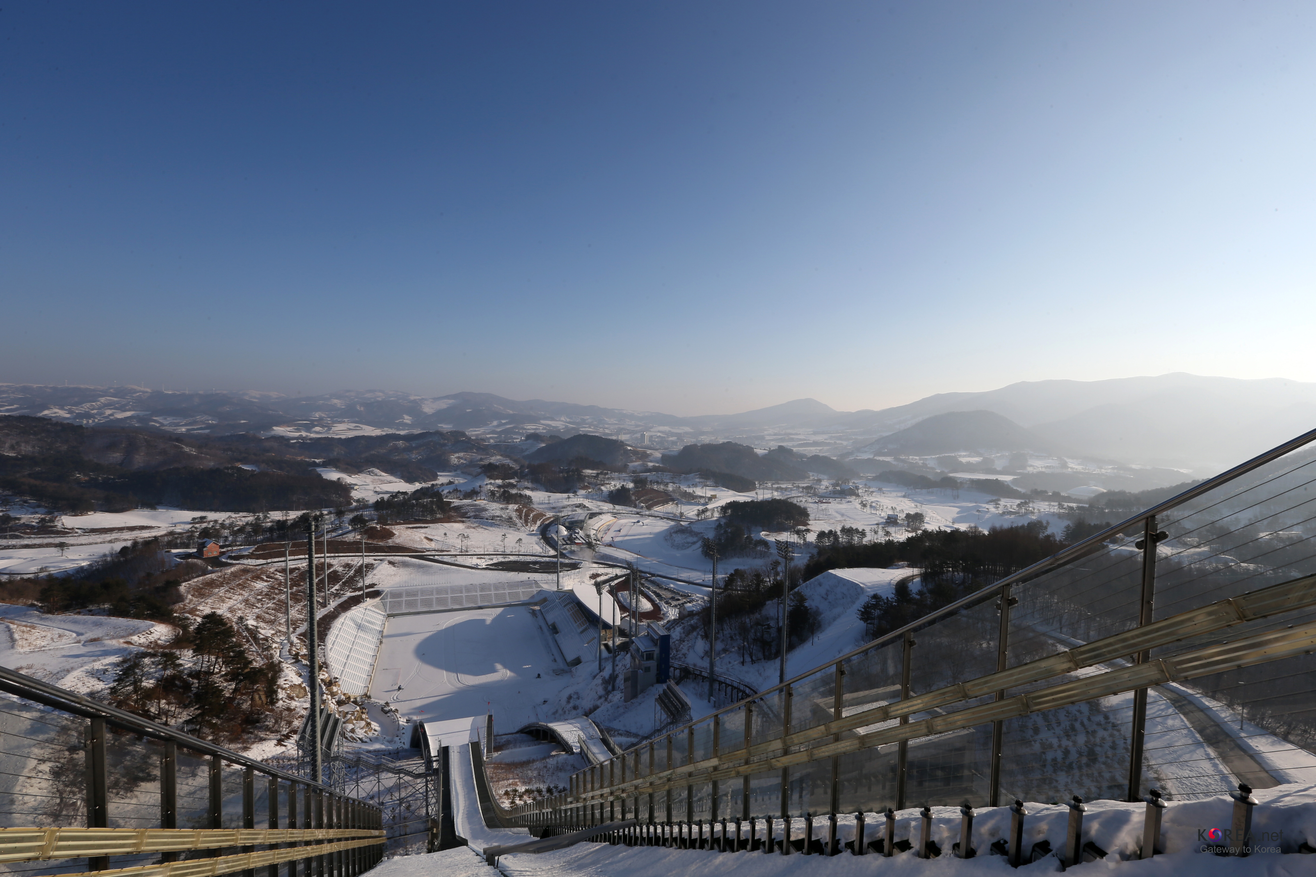 2013 PyeongChang The Special Olympics World Winter Games Media Day PyeongChang, Gangwon-Do 2013.01.10. Ministry of Culture, Sports and Tourism Korean Culture and Information Service Jeon Han 2013 평창 동계 스페셜올림픽 세계대회 미디어데이 평창, 강원도 문화체육관광부 해외문화홍보원 코리아넷 전한